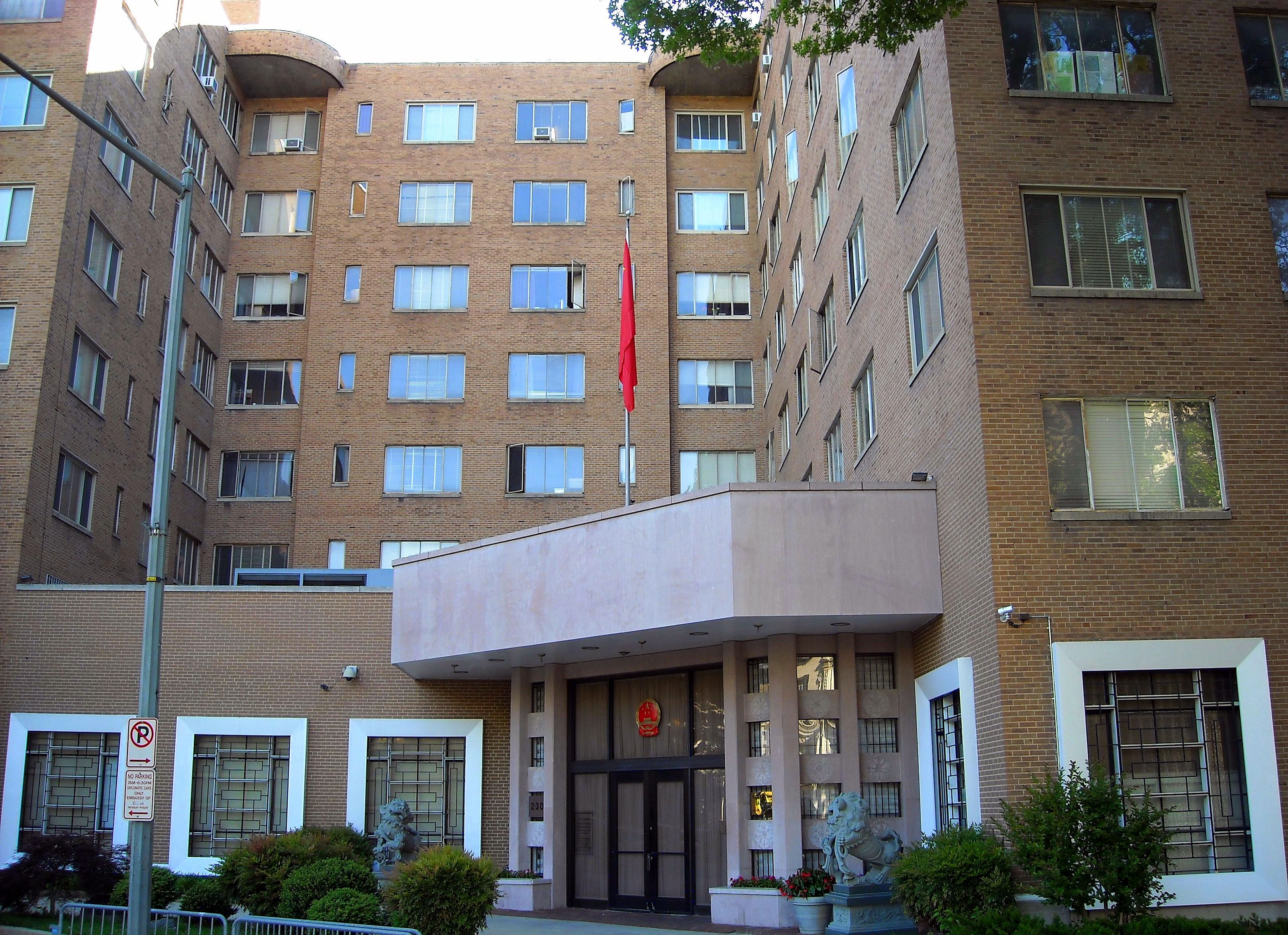 The Embassy of the People's Republic of China in the United States of America at 2300 Connecticut Avenue, NW in the Kalorama neighborhood of Washington, D.C.